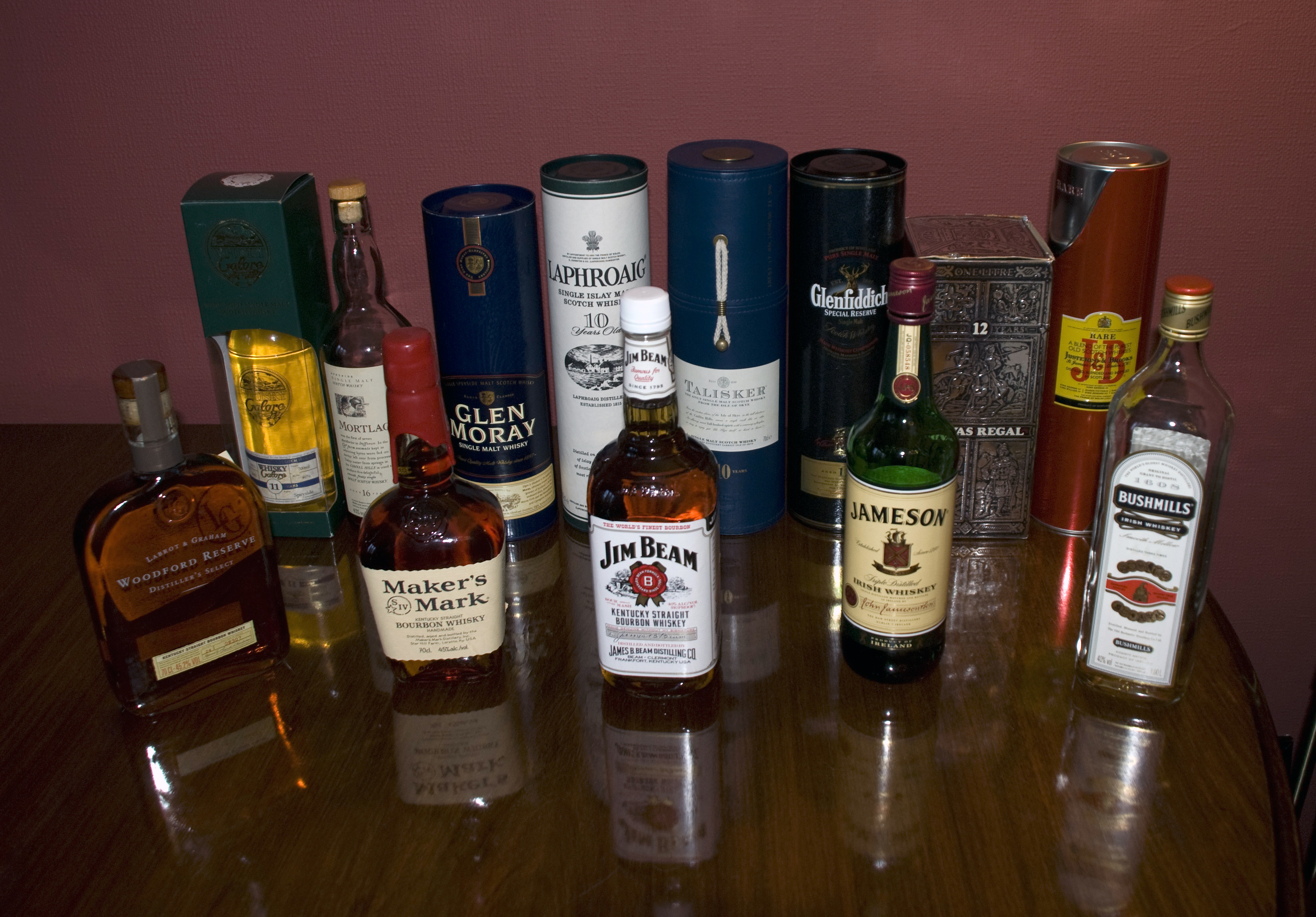 Various Whiskies. From left: Woodford Reserve Kentucky Straight Bourbon, Whisky Galore Single Malt (Speyside), Mortlach Single Malt (Speyside), Maker's Mark Kentucky Straight Bourbon, Glen Moray Single Malt (Speyside), Laphroaig Single Malt (Islay), Jim Beam Kentucky Straight Bourbon, Talisker Single Malt (Skye), Glenfiddich Single Malt (Highland), Jameson Irish Whiskey, Chivas Regal Blend (Highland), J&B Blend, Bushmills Irish Whiskey.